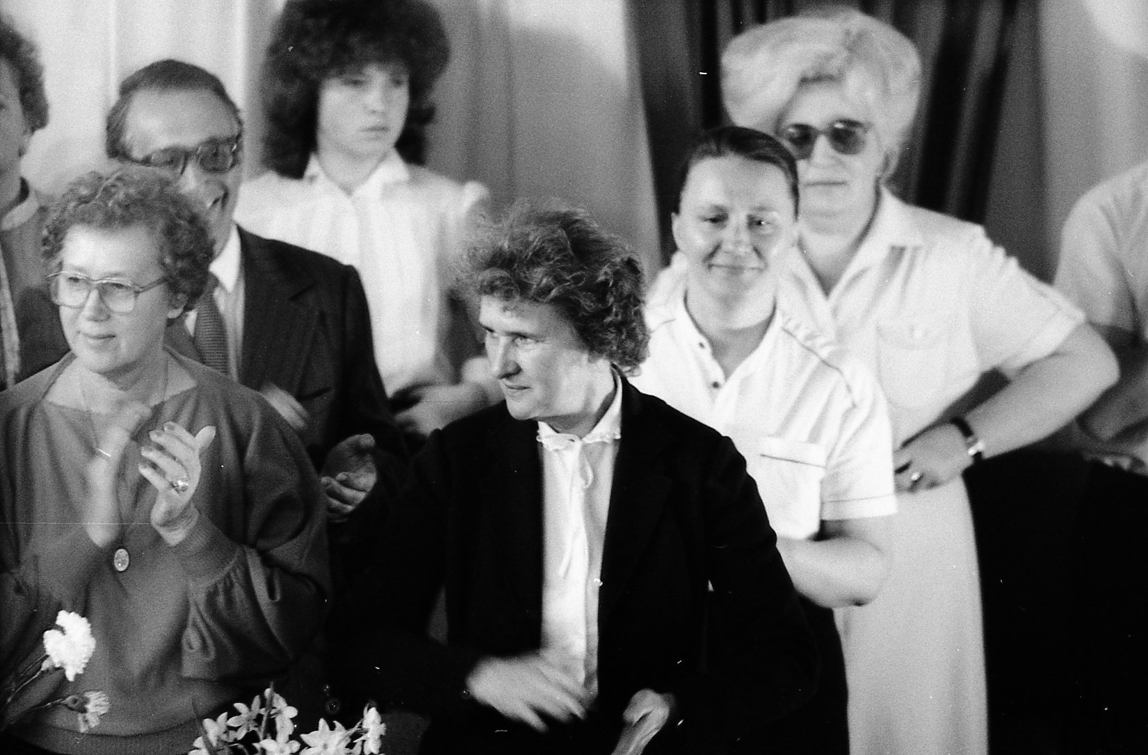 Lyudmila Vasilyevna Makhova, chemistry teacher at the 344th school in Leningrad